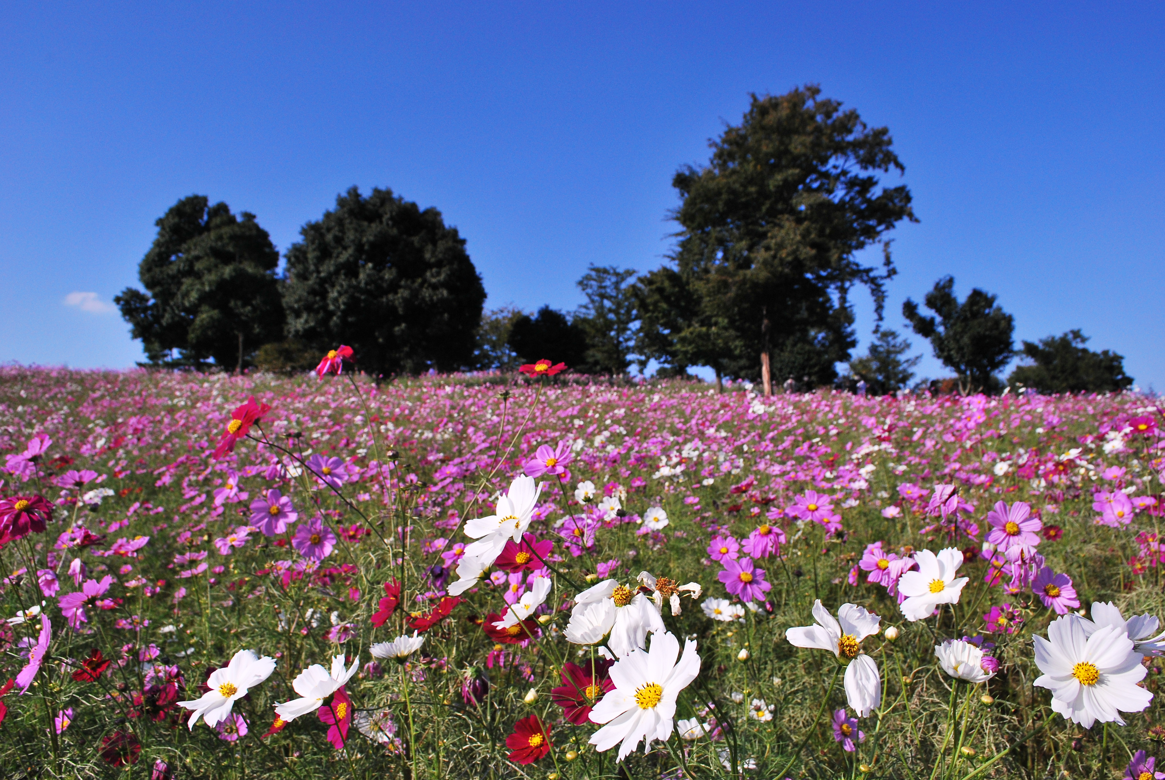 Cosmos bipinnatus field in Showa memorial park